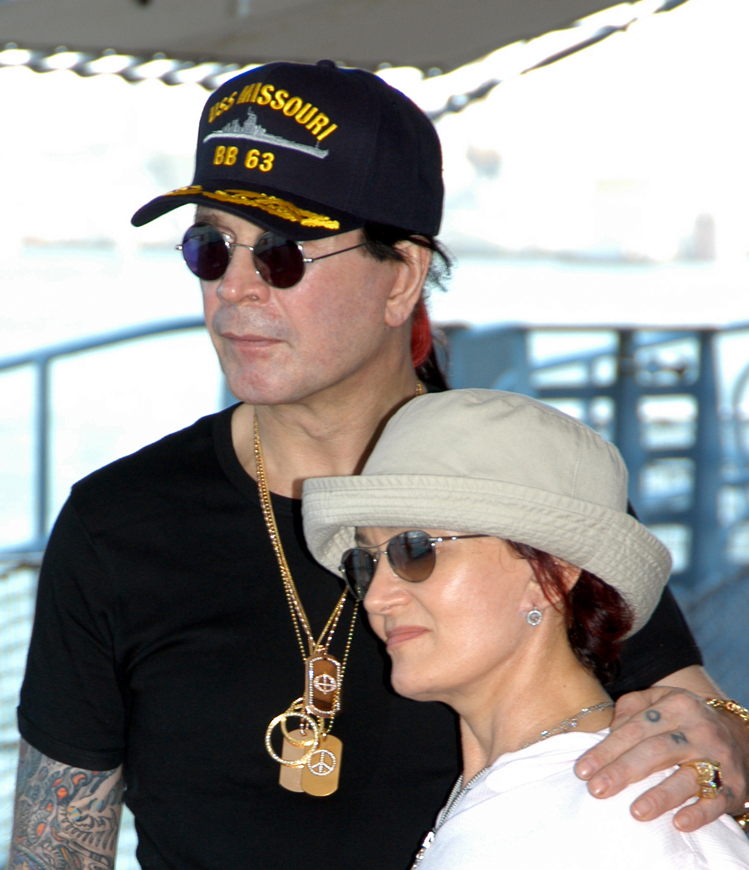 Pearl Harbor, Hawaii – Heavy Metal rock star and reality television hit Ozzy Osbourne and his wife Sharon, tour the battleship USS Missouri (BB 63) while filming their MTV show "The Osbournes" in Pearl Harbor, Hawaii. U.S.